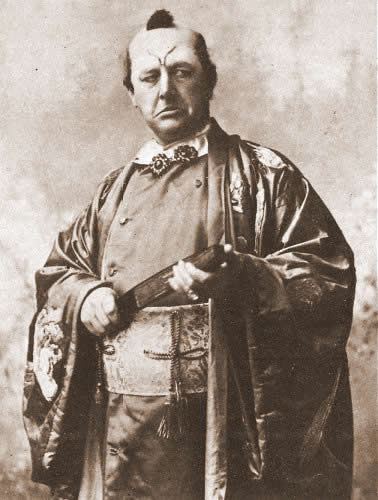 Rutland Barrington as Marquis Imari in The Geisha, c. 1896. Possibly photographed by Alfred Ellis. The photo is similar to the one of Barrington as Imari published in The George Edwardes Birthday Book (compiled by Owen Hall) presented to the audience at Daly's Theatre on 26 April 1897 on the first anniversary of The Geisha. This photo has been misidentified in some books about Gilbert and Sullivan as being Barrington in the role of Pooh-Bah in The Mikado, for instance in the booklet "D'Oyly Carte Centenary 1875-1975".